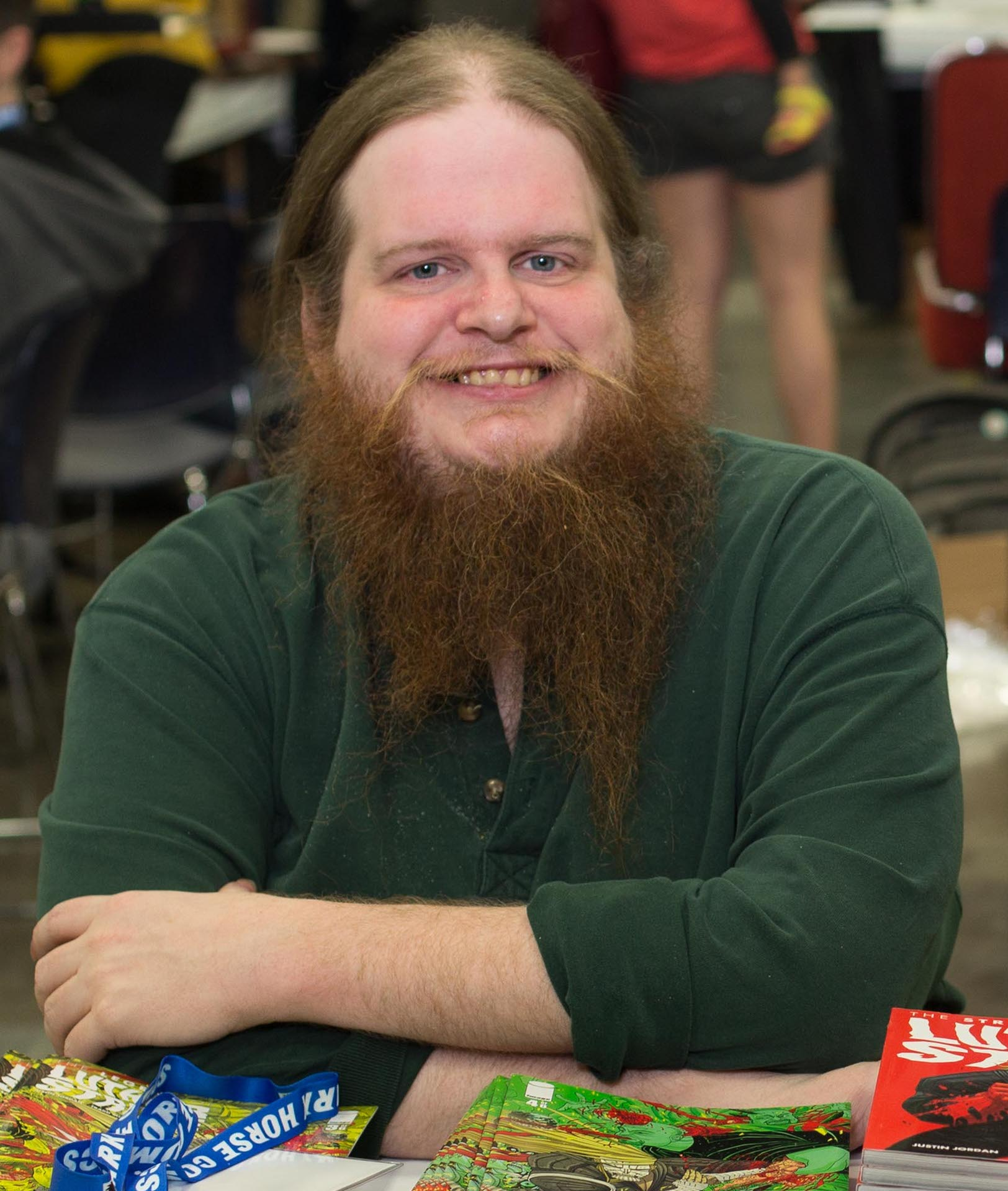 Justin Jordan of Luther Strodde